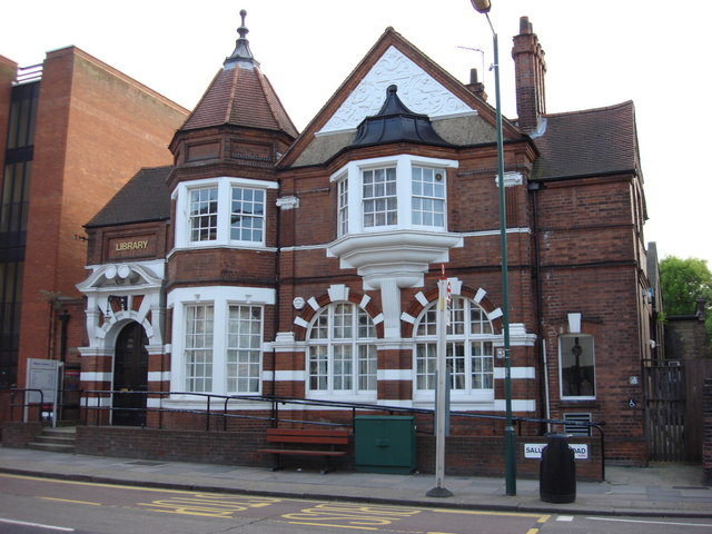 Kilburn Library. The brick building on the left is the police station.